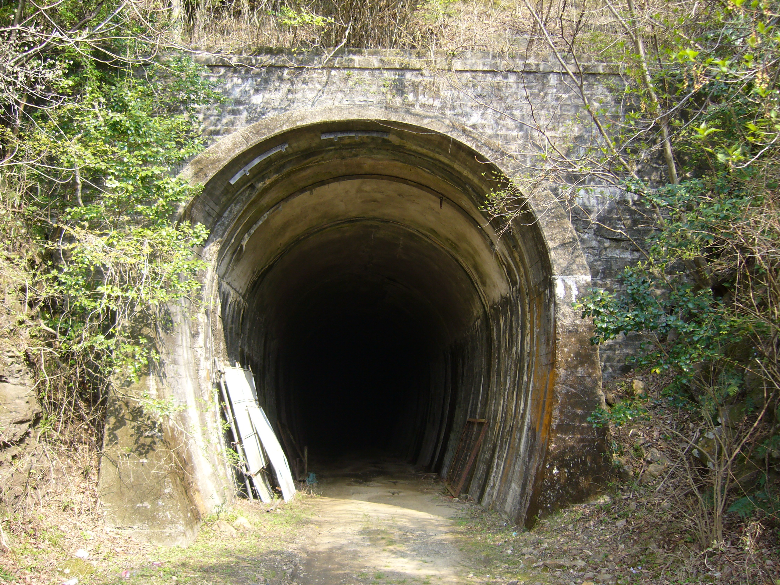 This is a picture of Sodani tunnel, Kintetsu Osaka line.This tunnel isn't used now because Shin-sodani tunnel was built.I took this picture near HIGASHI-AOYAMA station.